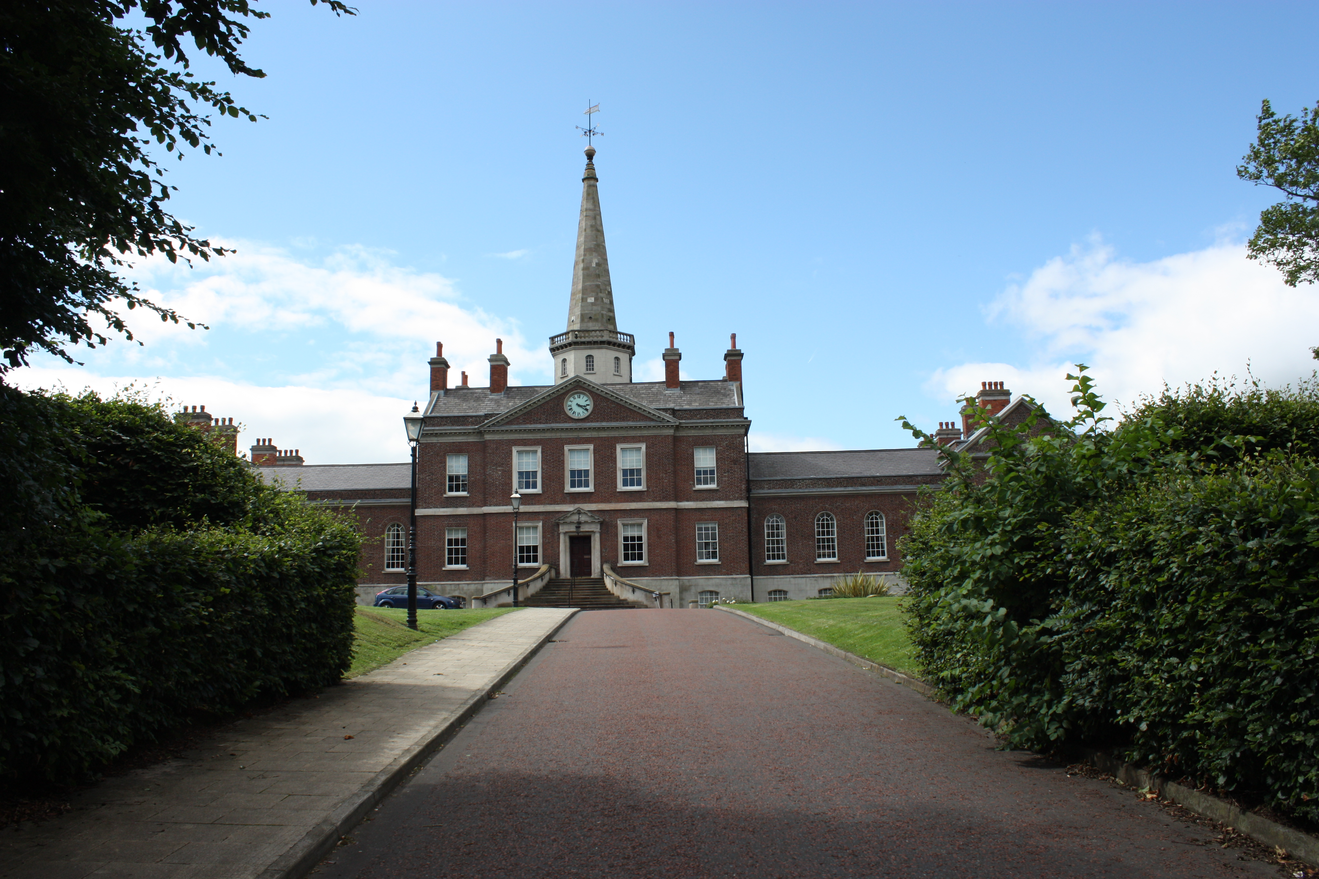 Clifton House, North Queen Street, Belfast, Northern Ireland, July 2010